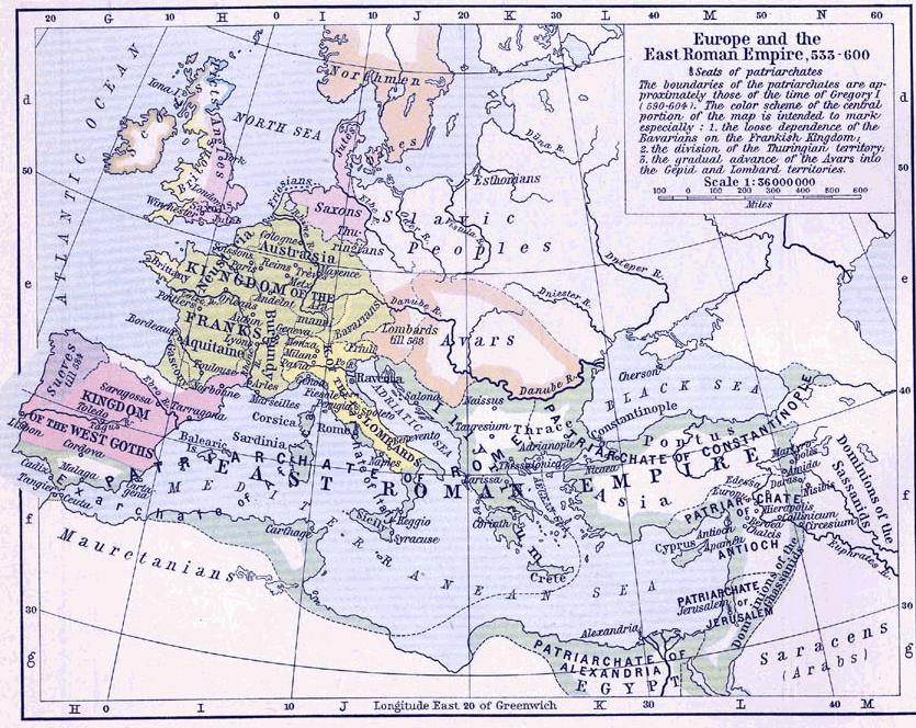 East Roman Empire (public domain map)